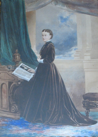 John Arthur Fraser for William Notman and Son, painting: Alice Starr Chipman Tilley, watercolour over a photograph